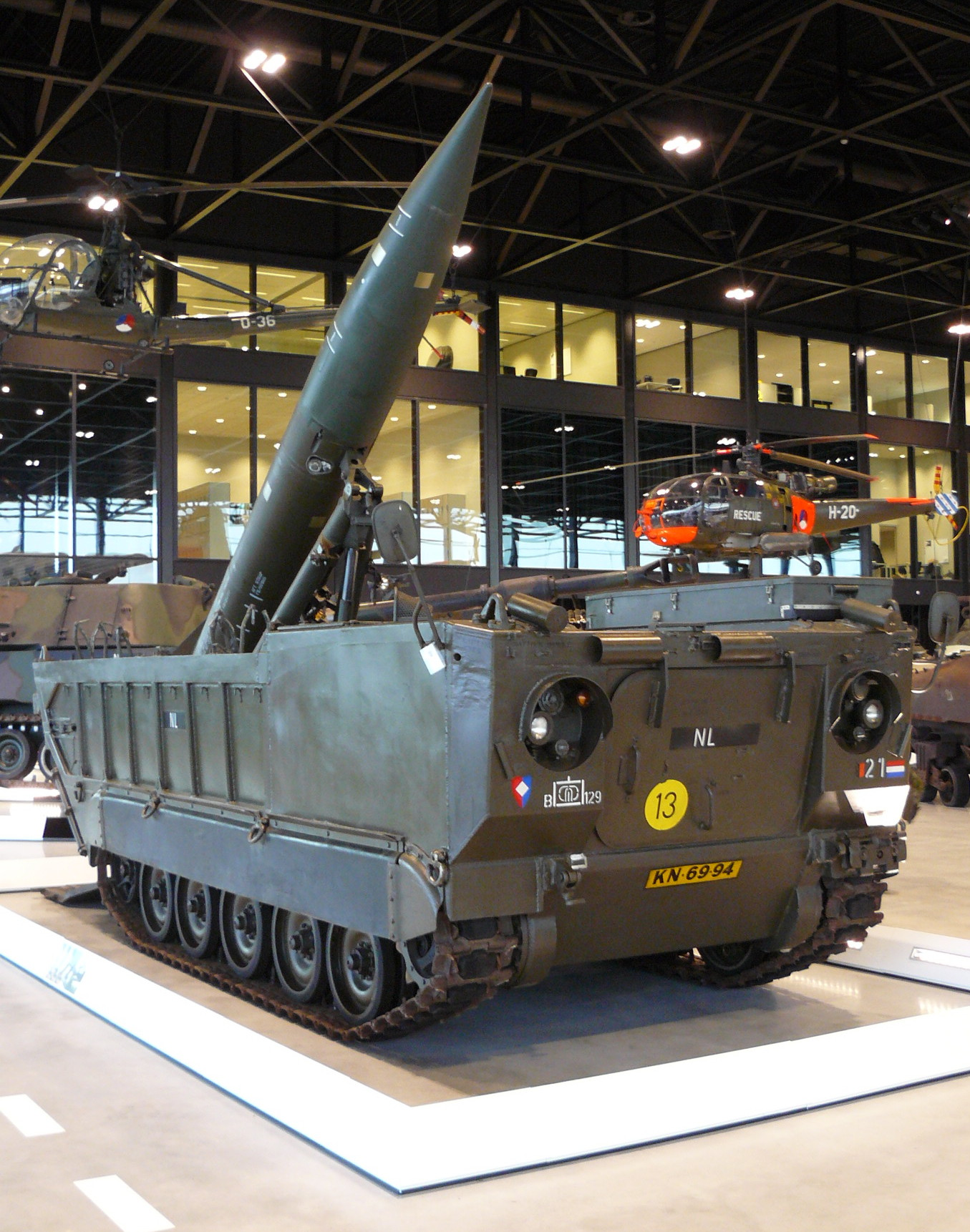 MGM-52 Lance missile in the Nationaal Militair Museum in Soesterberg, the Netherlands